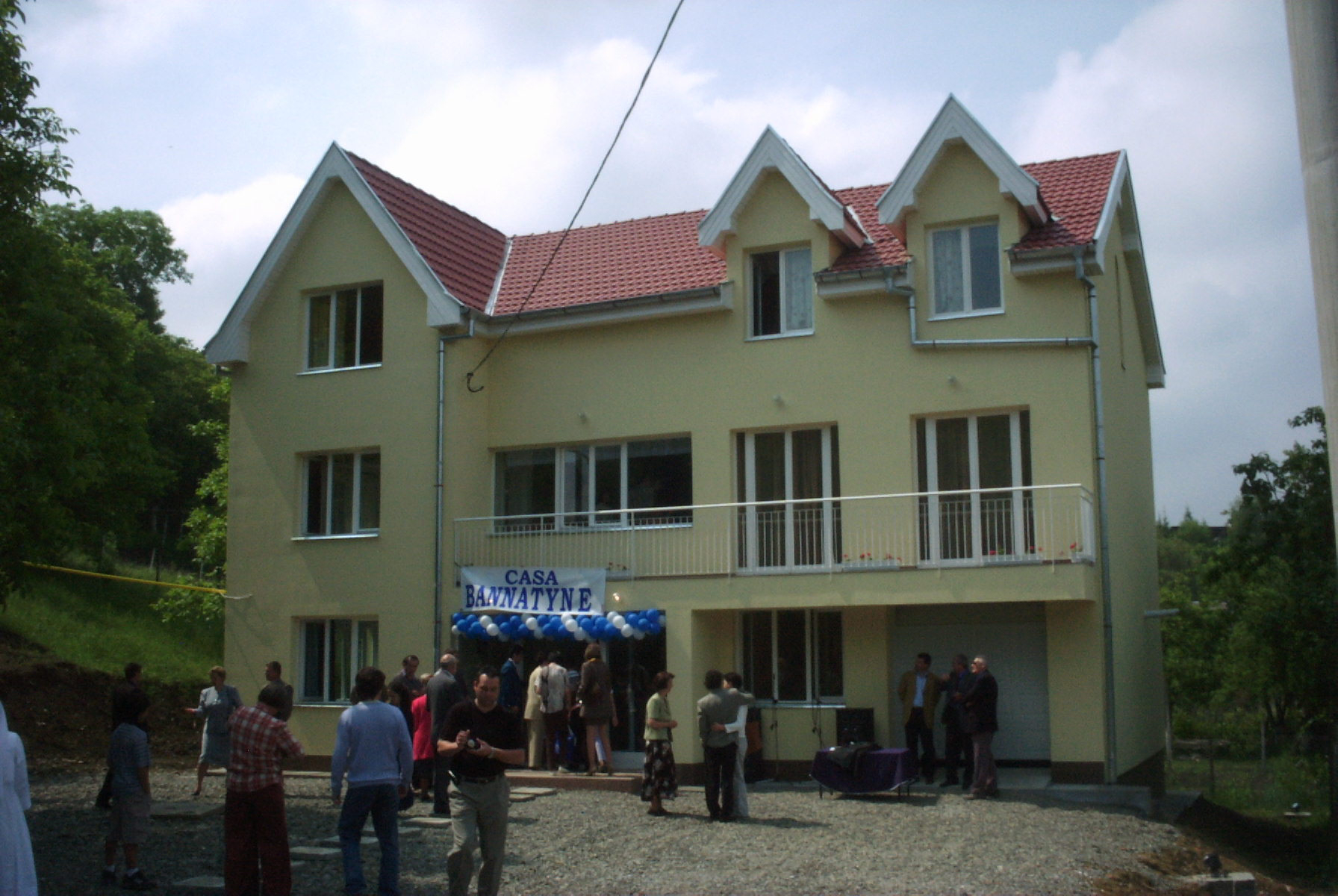 Opening Casa Bannatyne in Romania